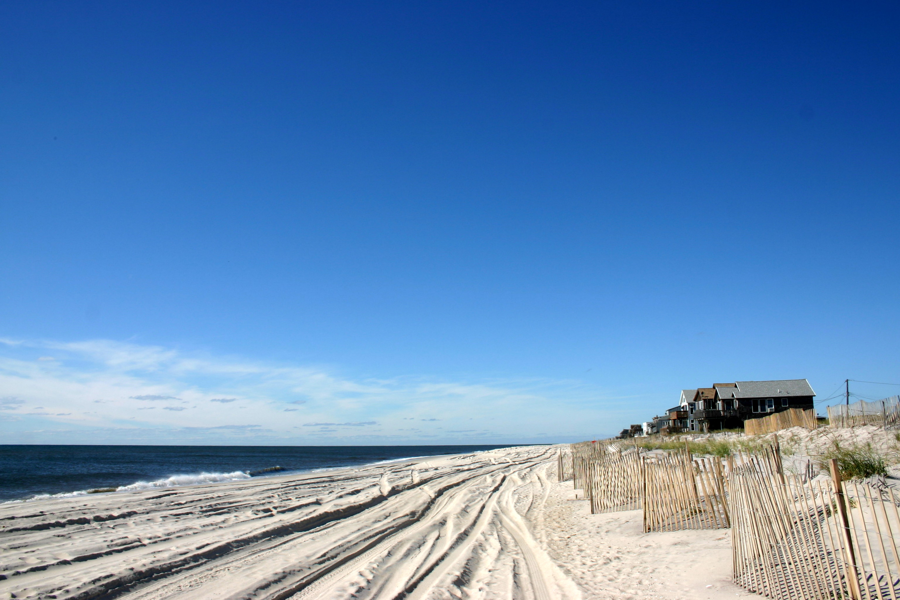 Beach to the Ocean on Fire Island